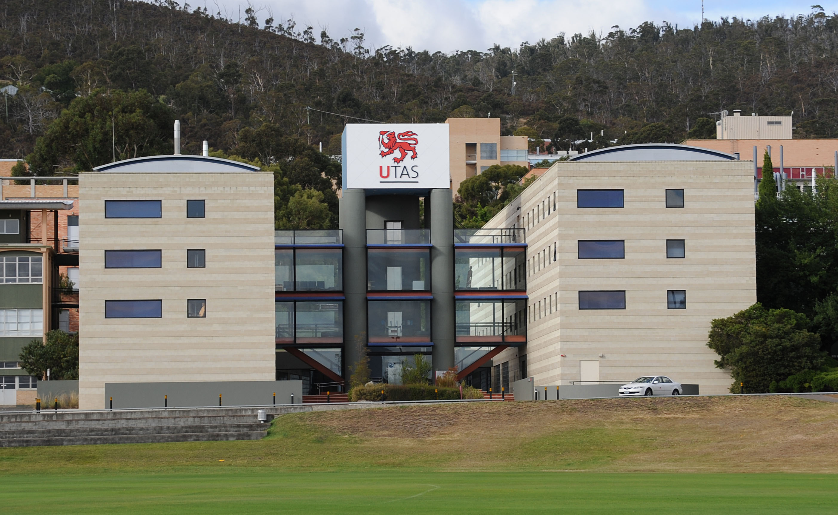 Centenary Building, Sandy Bay Campus